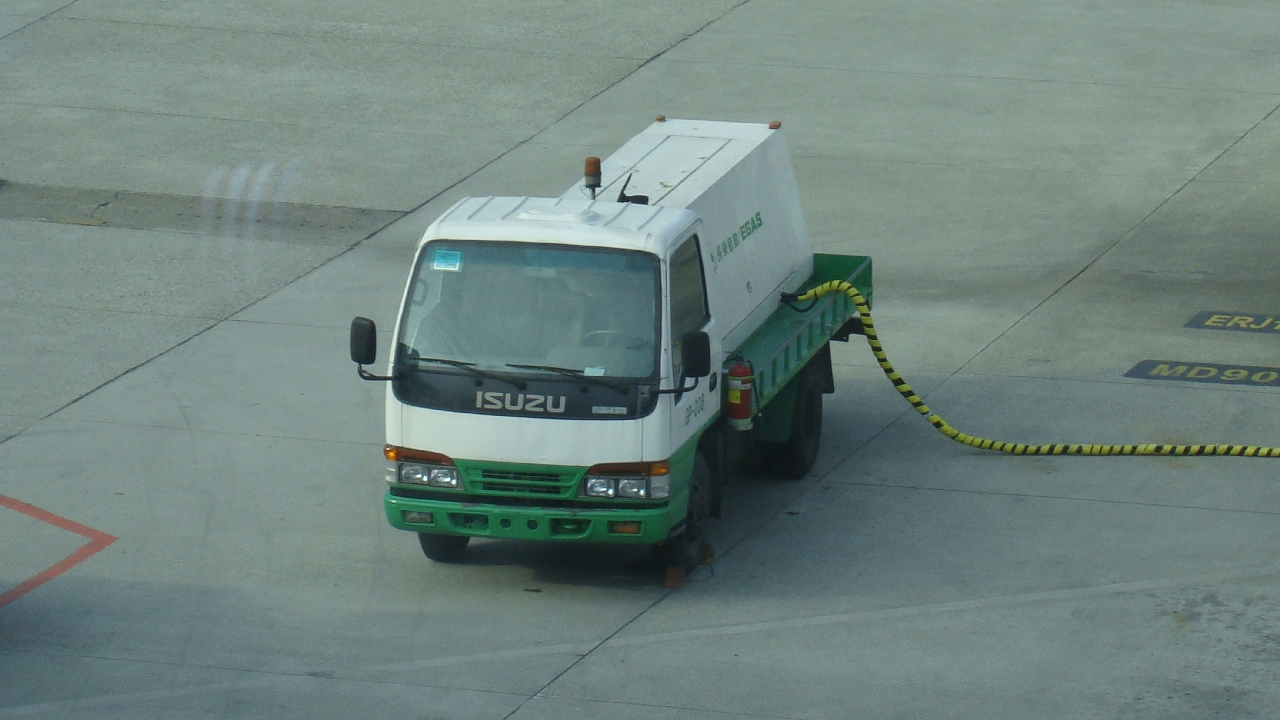 Taipei Songshan Airport ground handling vehicles - EVA Air dedicated power supply car (Isuzu NKR) of Evergreen Airline Services Corp.